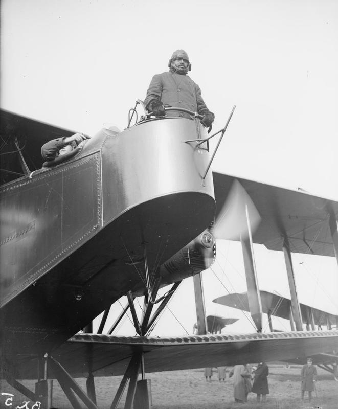 Imperial War Museum Photograph Archive Collection An Indian Newspaper Editor in the forward gunners cockpit of a twin-engine Handley Page bomber, before the flight over London, Hendon Aerodrome, October, 1918.